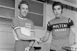 Eddy Merckx (r)